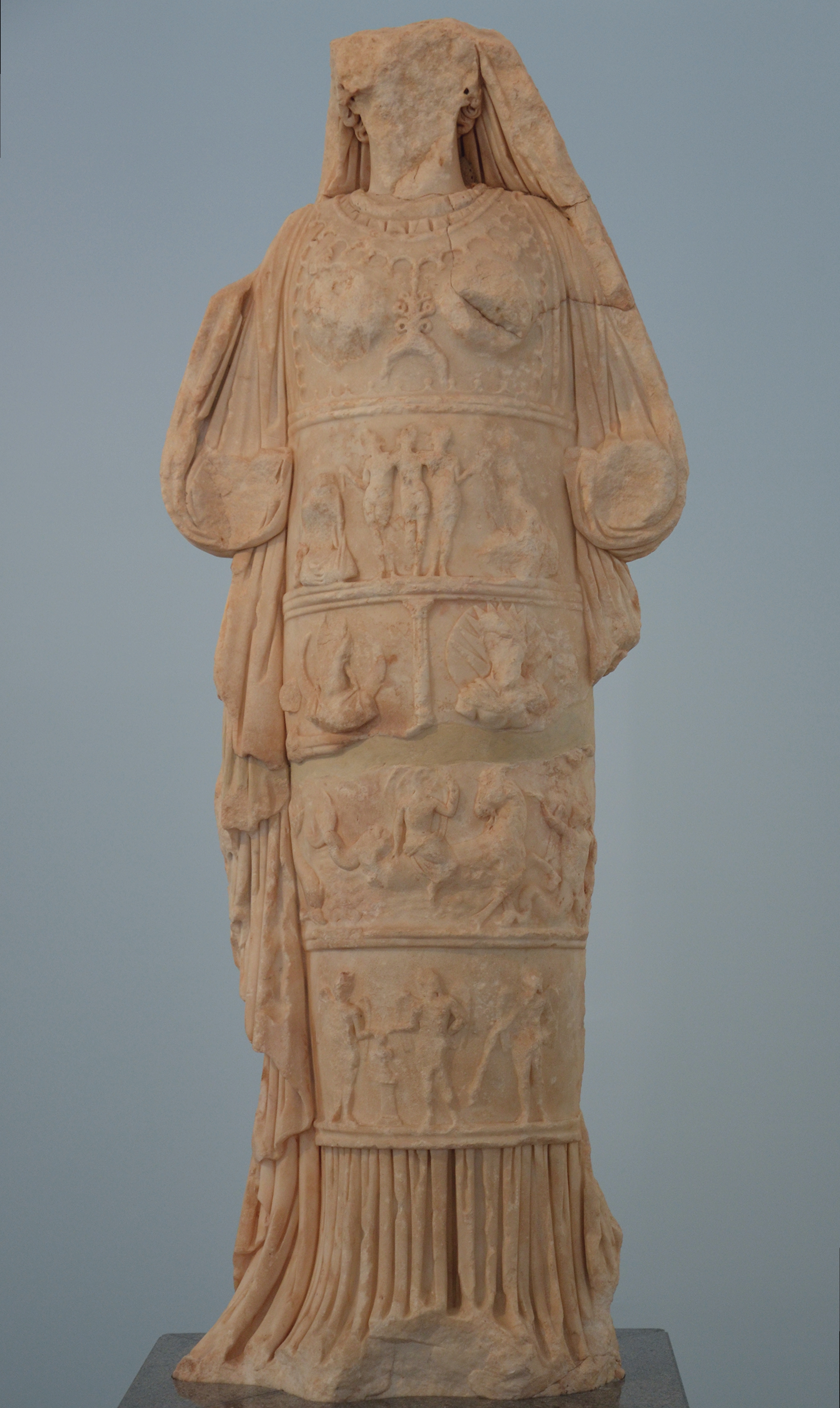 Her head was veiled and she wears a heavy casing (ependytes) on which are: the Three Graces, the Moon & Sun, Aphrodite on a sea-goat and Eros figures sacrificing.